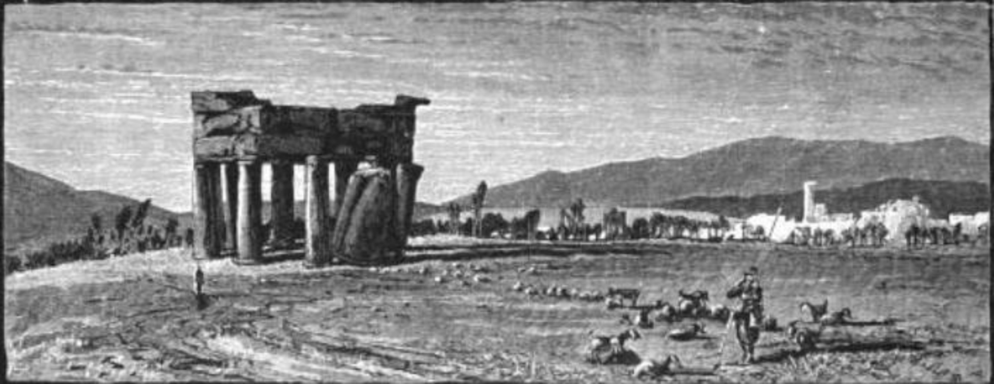 Caption: an arab shrine, south-west of ba'albek,Called Kubbet Dûris, after the neighbouring village of Dûris; it is a modern structure formed of eight ancient columns clumsily set upand surmounted by a heavy architrave. An enormous sarcophagus, standing on end, serves as the mihrab, or Muslim prayer niche.